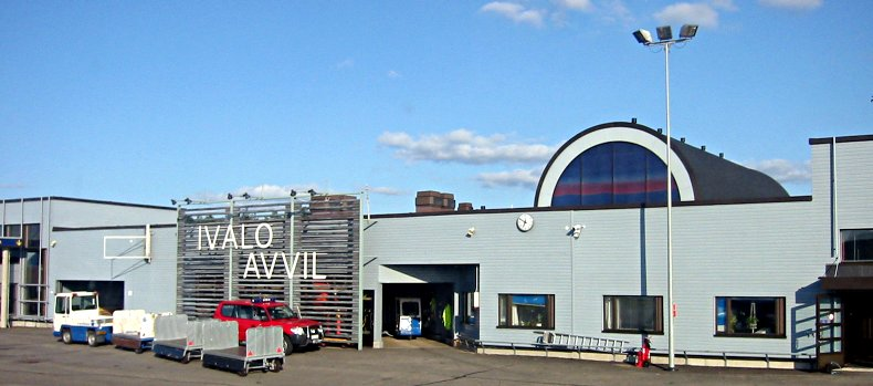 Ivalo Airport terminal